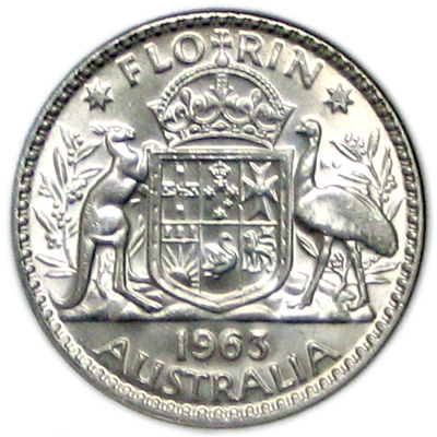 Photograph of a choice uncirculated 1963 florin from my collection.